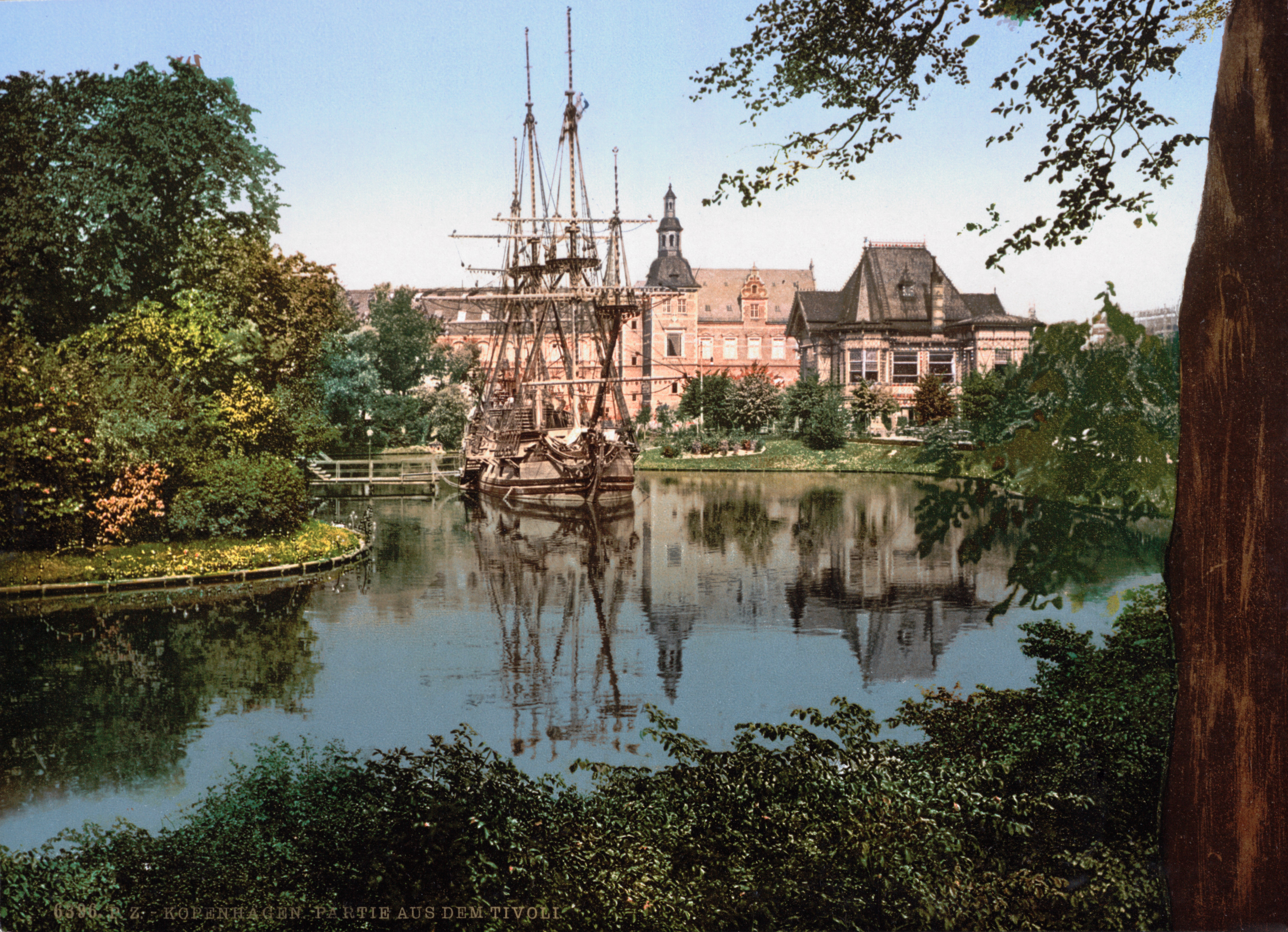 The Tivoli park, Copenhagen, Denmark